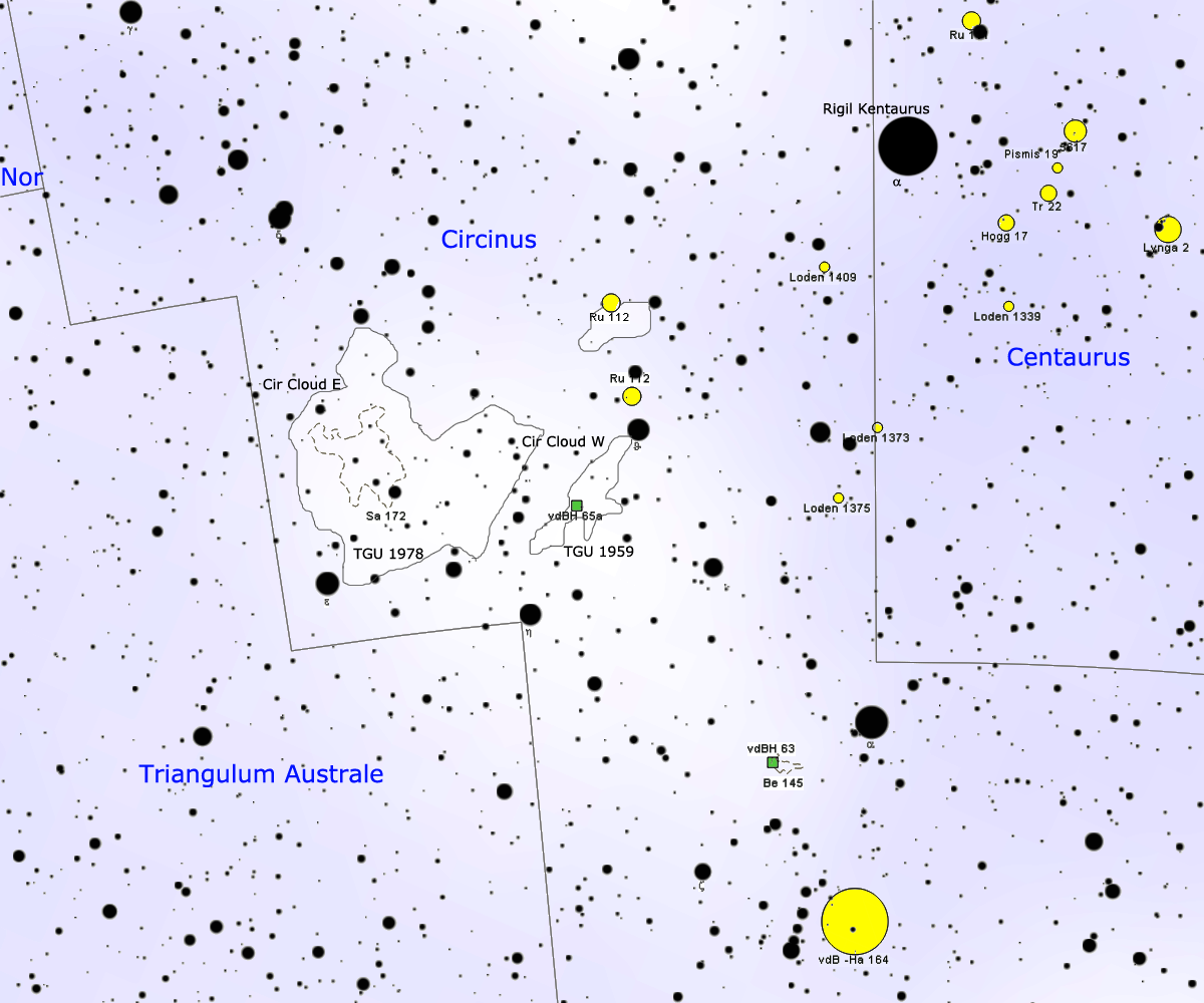 Map of Circinus Cloud